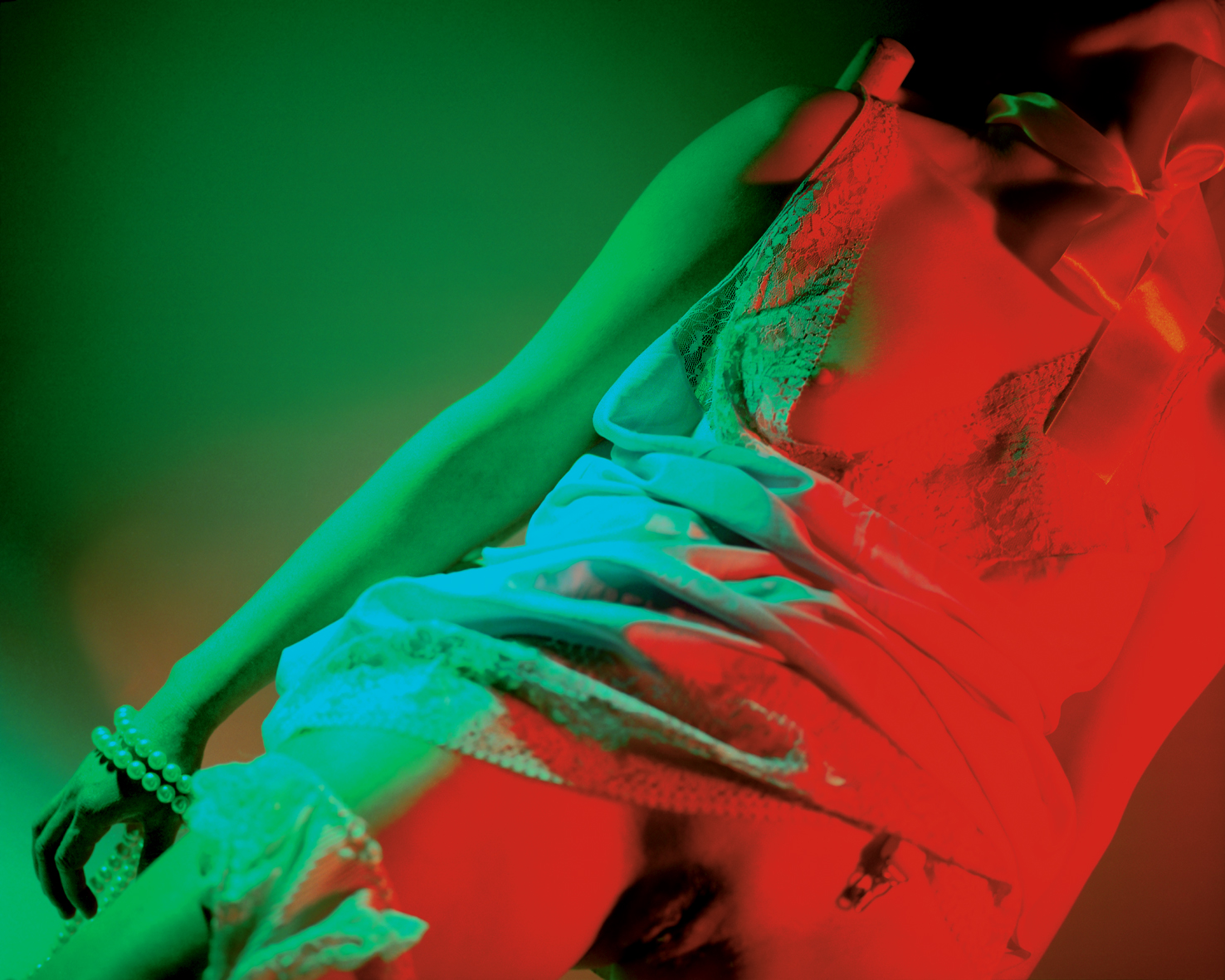 DS_SL_3_5-2001. 2001. Color photography.100x70 cm